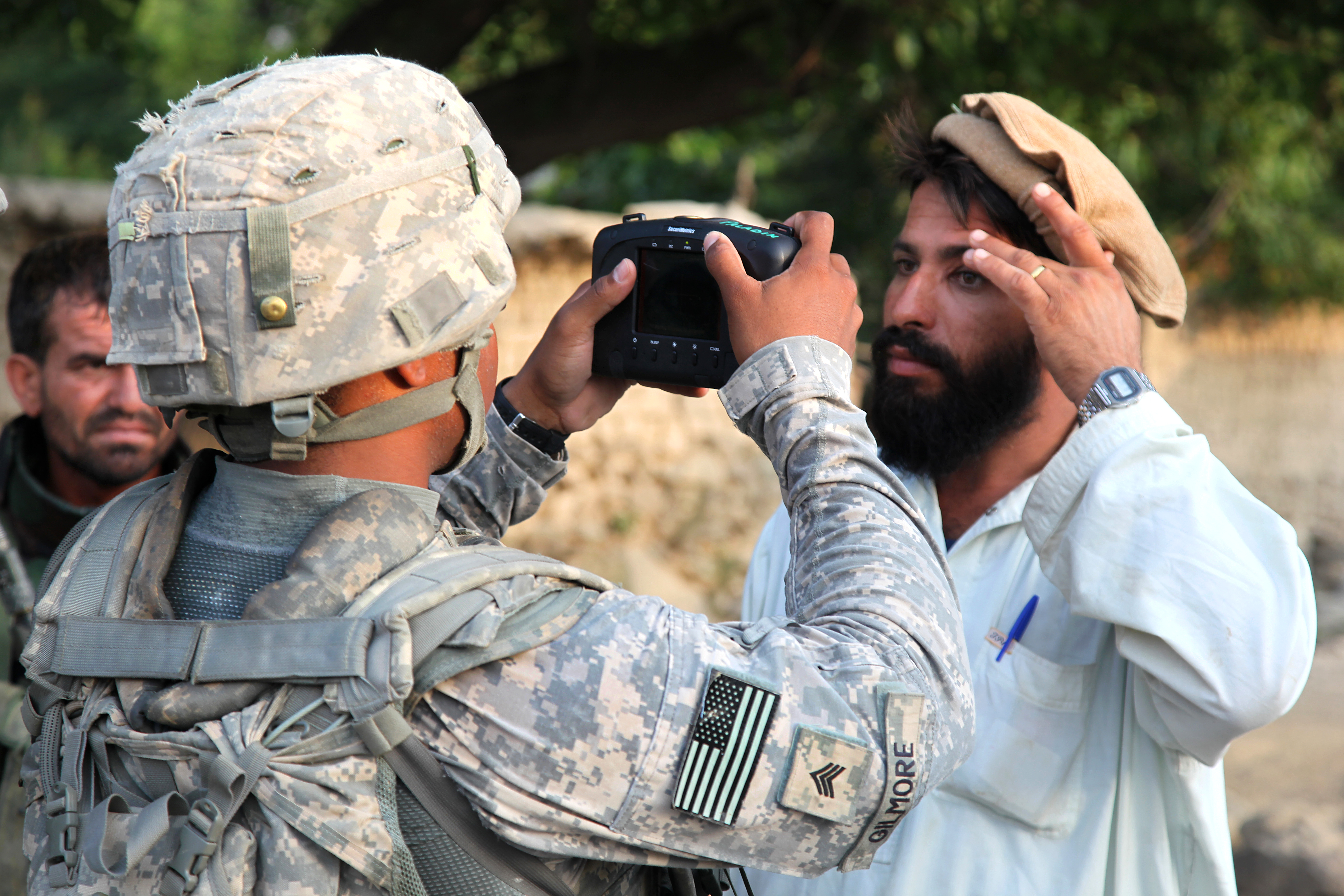 U.S. Army Sgt. Gilmore takes a retinal scan of an Afghan man during Operation Champion Sword in the Sabari district in Khost province, Afghanistan, July 28, 2009. Gilmore is assigned to the 25th Infantry Division’s Headquarters and Headquarters Company, 2nd Battalion, 377th Parachute Field Artillery Regiment, 4th Brigade Combat Team, Airborne.